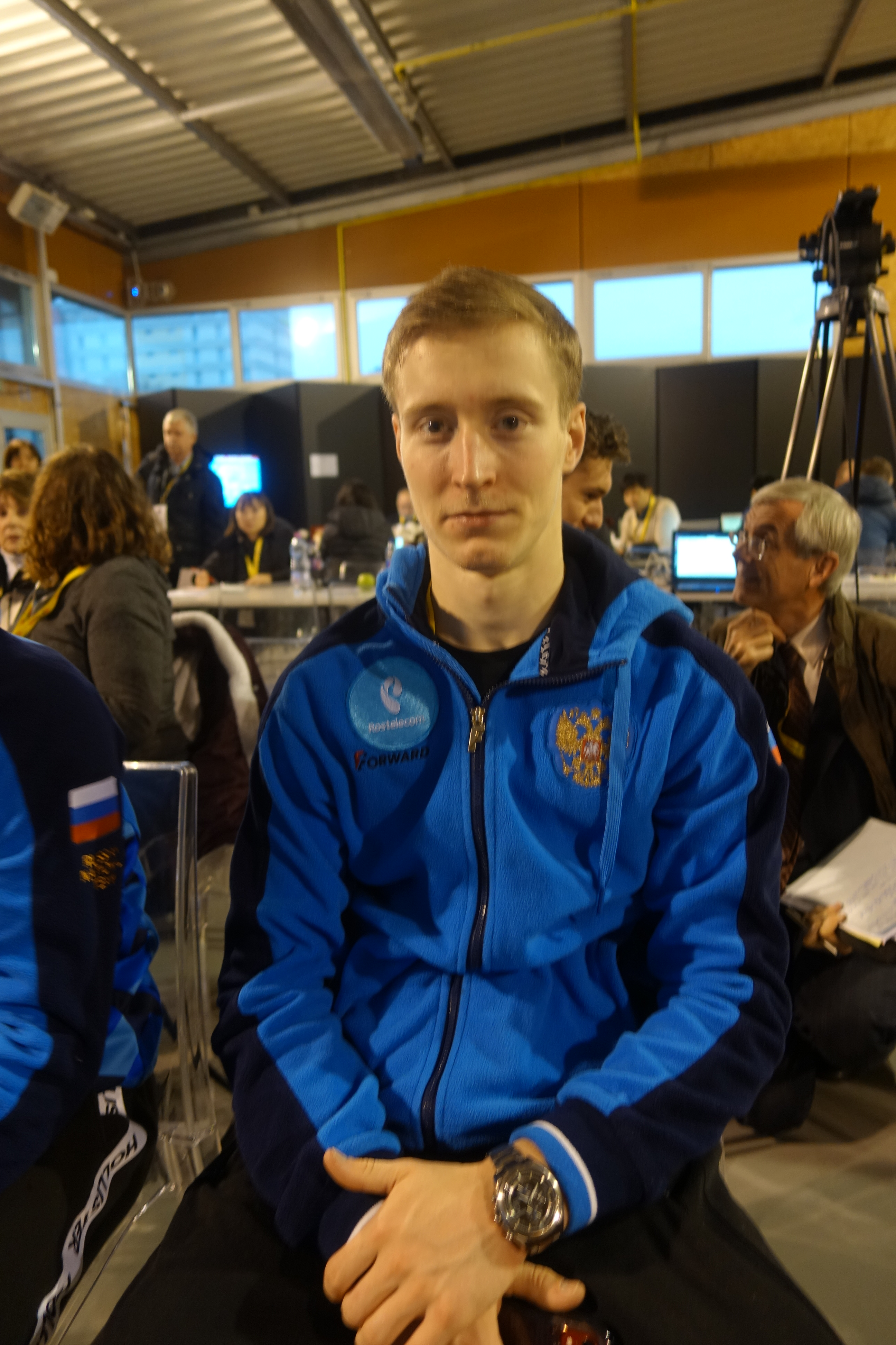 2018 Internationaux de France - men draw for the free skating - Alexander Samarin